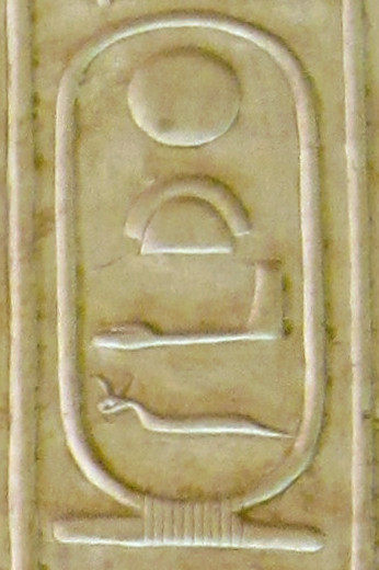 Cartouche 23, Abydos King List. Temple of Seti I, Abydos, Egypt